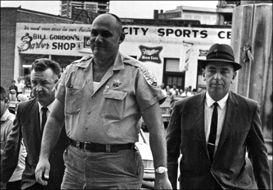 Lawrence Rainey escorted by FBI agents in October 1964 near the Meridian Mississippi Federal Court house.